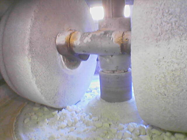 Stone grinder of the Mill workshop of the manufacture nationale de Sèvres